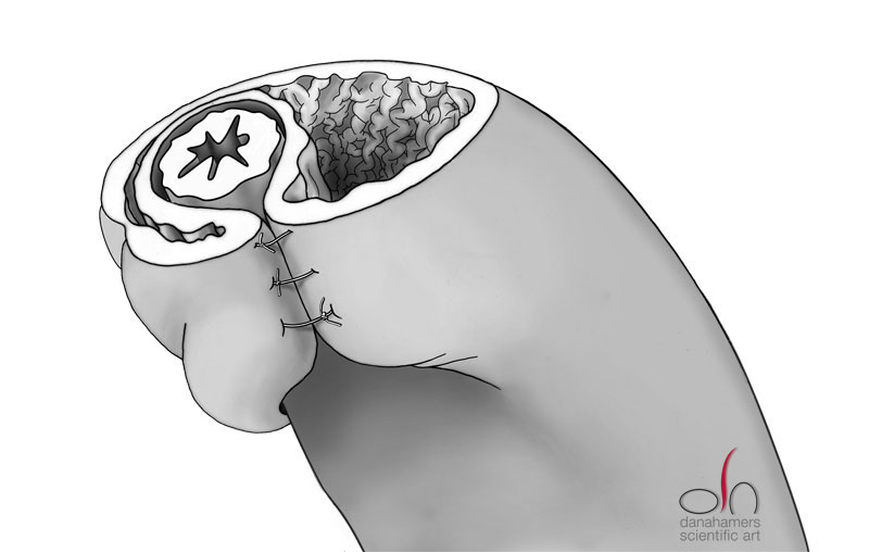 Nissen fundoplication, cross section